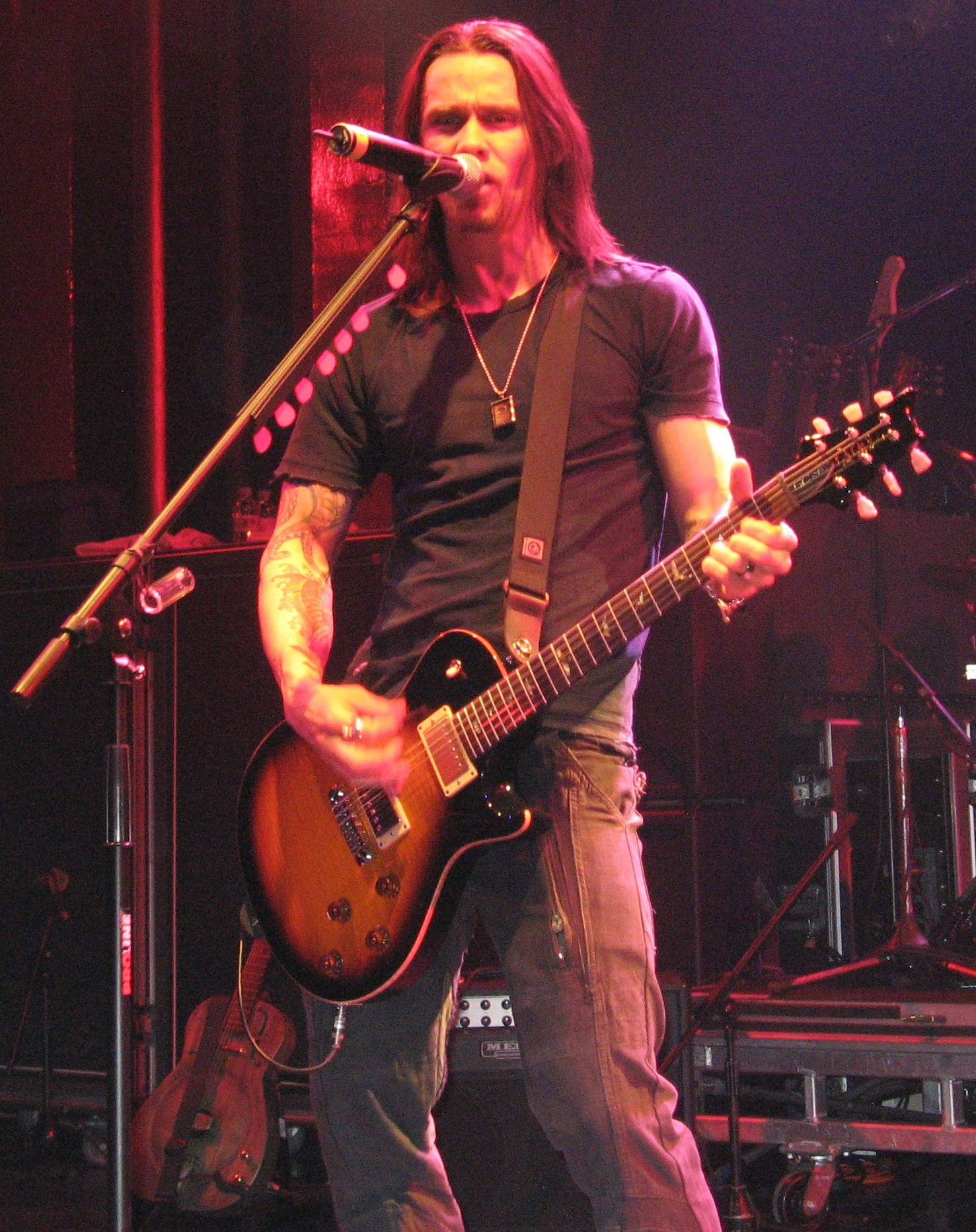 Myles Kennedy of Alter Bridge in Barcelona 3-6-08